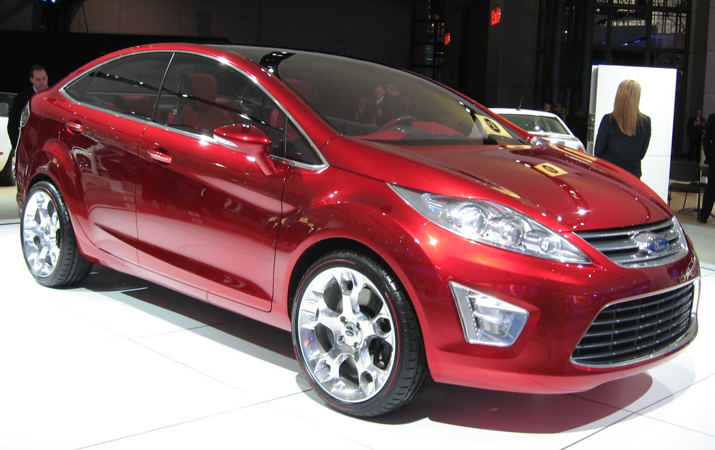 Ford Verve concept photographed at the 2008 New York Auto Show.